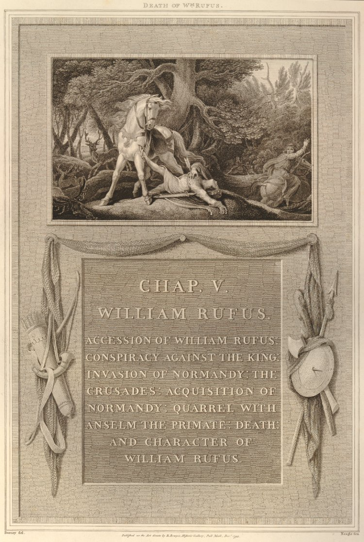 "Death of William Rufus," etching and engraving, illustrates Chapter V of Robert Bowyer's illustrated printing of David Hume's "History of England." Courtesy of the British Museum, London.